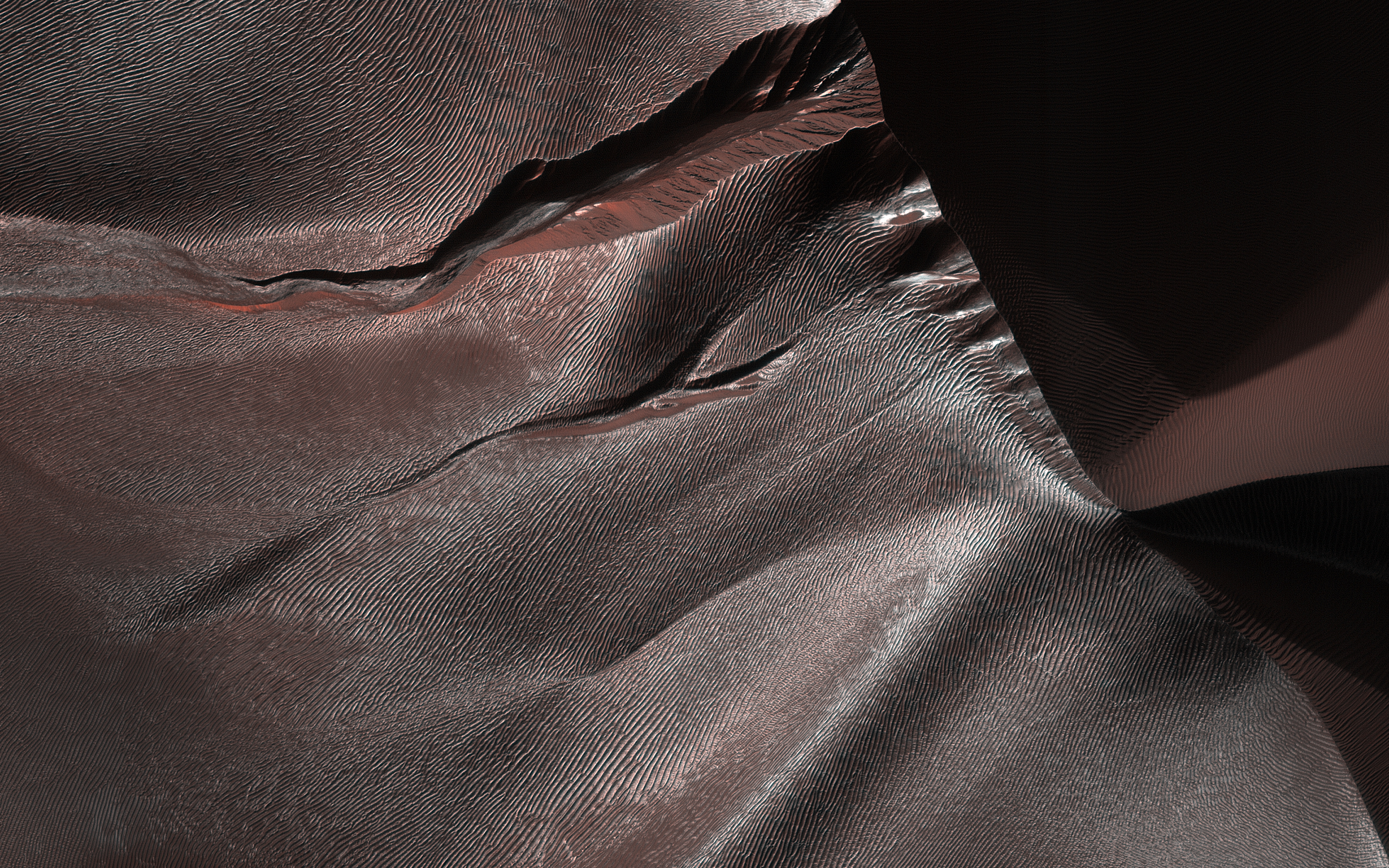 Gullies on Martian sand dunes, like these in Matara Crater, have been very active, with many flows in the last ten years. The flows typically occur when seasonal frost is present. In this image from NASA's Mars Reconnaissance Orbiter we see frost in and around two gullies, which have both been active before. (View this observation to see what these gullies looked like in 2010.) There are no fresh flows so far this year, but HiRISE will keep watching. The map is projected here at a scale of 50 centimeters (19.7 inches) per pixel. [The original image scale is 50.3 centimeters (19.8 inches) per pixel (with 2 x 2 binning); objects on the order of 151 centimeters (59.4 inches) across are resolved.] North is up. The University of Arizona, Tucson, operates HiRISE, which was built by Ball Aerospace & Technologies Corp., Boulder, Colorado. NASA's Jet Propulsion Laboratory, a division of Caltech in Pasadena, California, manages the Mars Reconnaissance Orbiter Project for NASA's Science Mission Directorate, Washington.